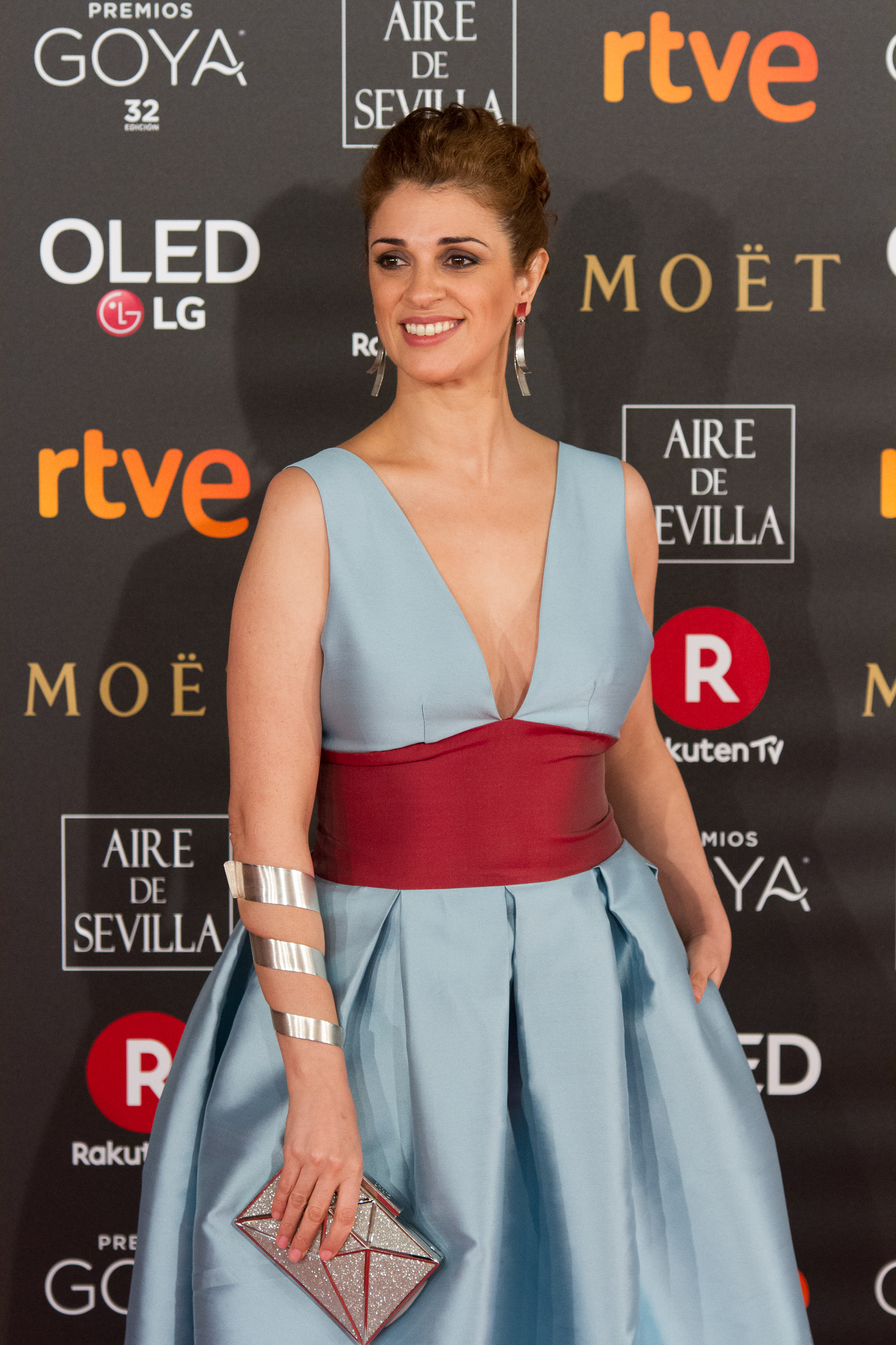 32nd Goya Awards, 2018.